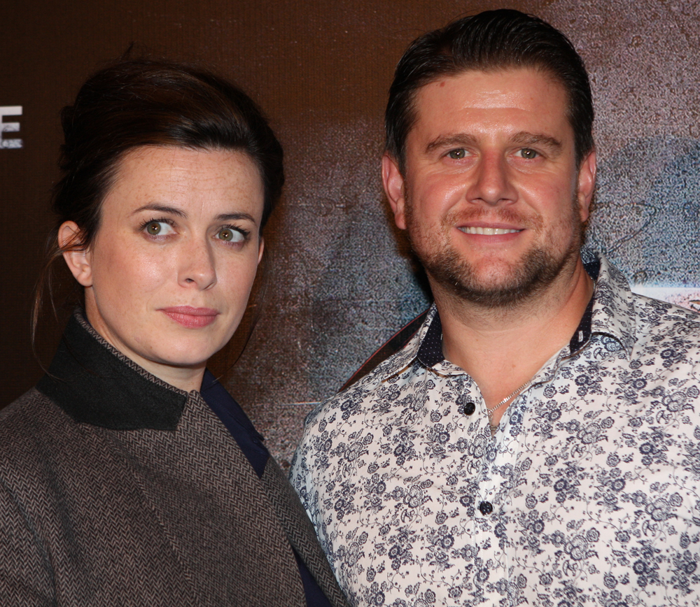 Eve Myles and Kai Owen at Man Of Steel red carpet movie premiere, Sydney